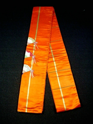 This is a vintage narrow obi. It has charming fan motif in two parts, which is embroidered.